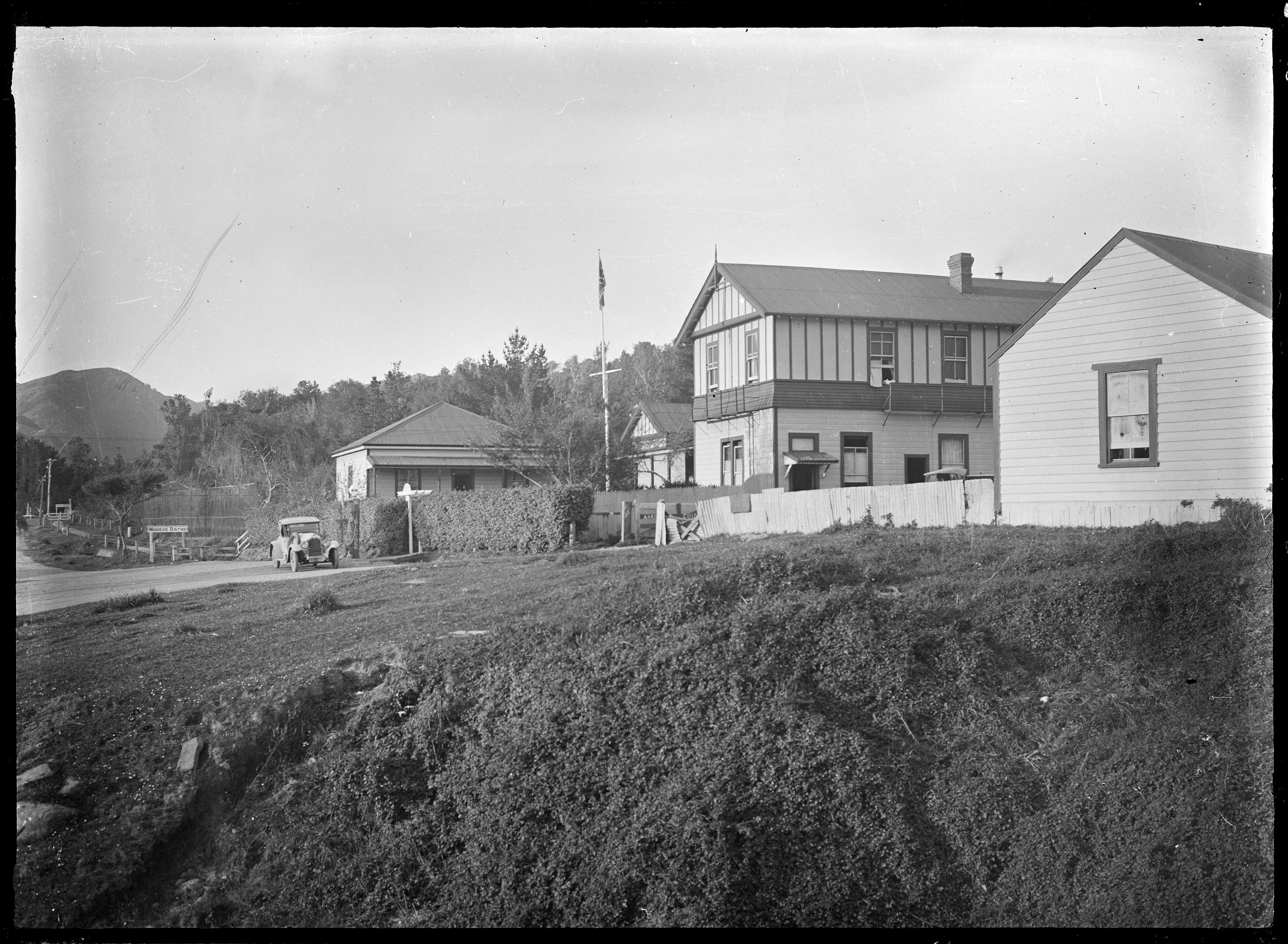 View of the Hot Springs Hotel, accomodation house at the New Zealand Government's Health Resort at Morere. On the left is a sign leading to the Morere Baths. Photograph taken by Albert Percy Godber in 1927.